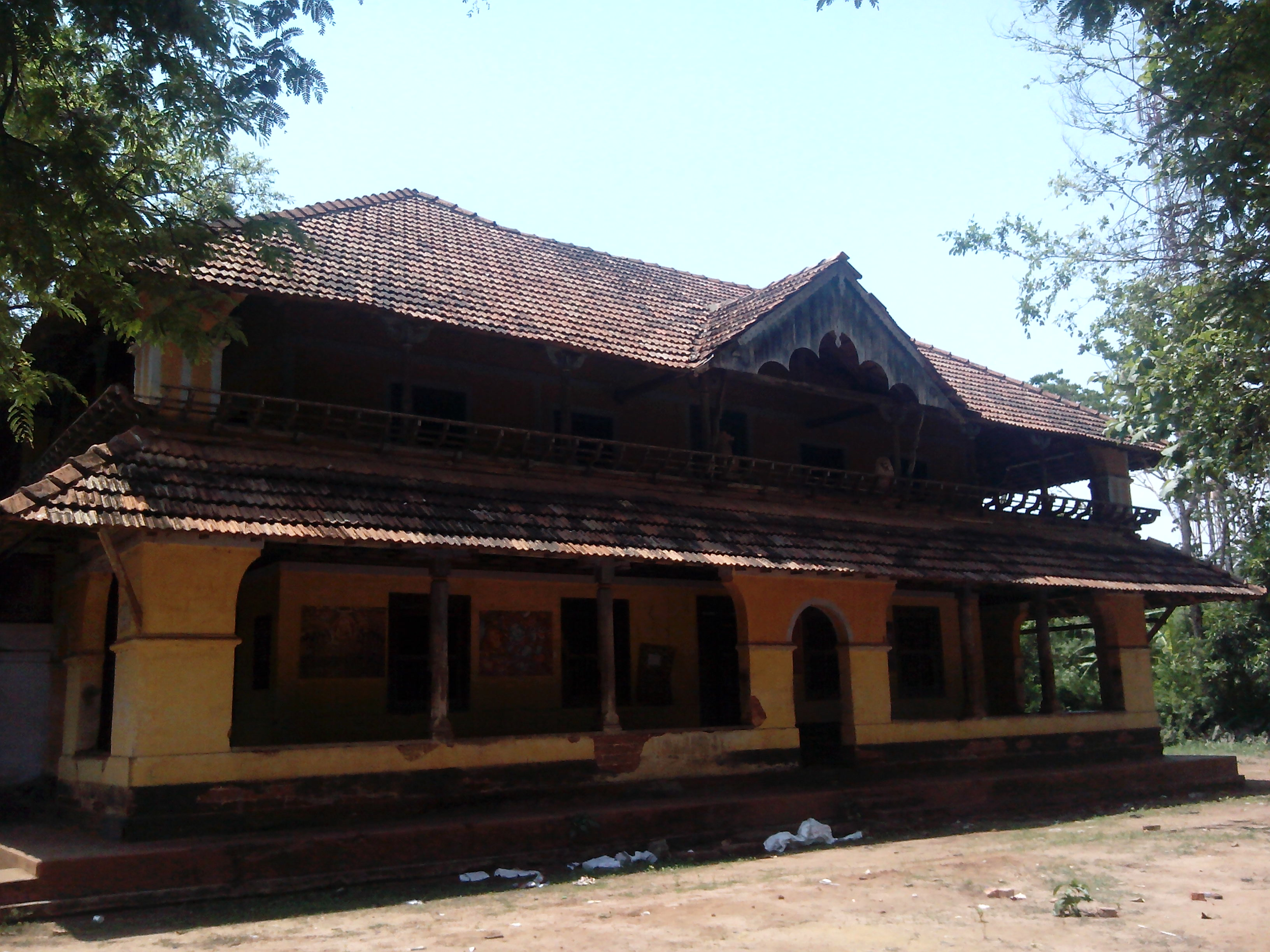 nileswar kotaram